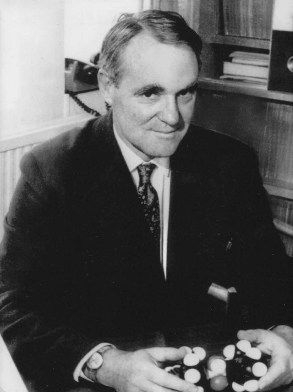 1975 PRESS PHOTO PROFESSOR JOHN WARCUM CORNFORTH